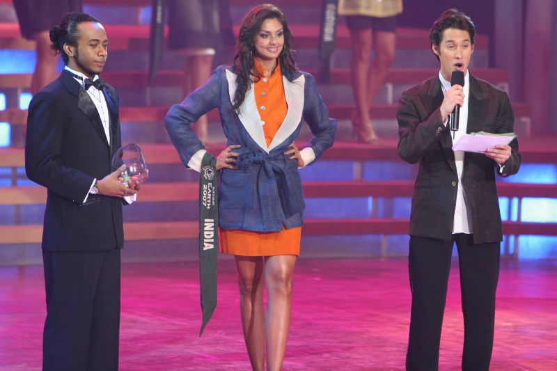 Pooja Chitgopekar from India was interviewed by VJ Utt.